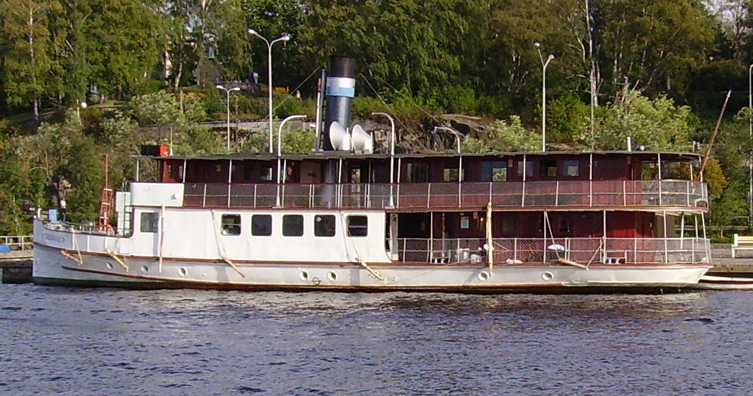 PAssenger steamship Tarjanne at Tampere on lake Näsijärvi, Finland. Tarjanne served as an Imperial Russian Navy gunboat in the Näsijärvi squadron in the First World War. She was disarmed in the winter of 1918, when her gun was removed for use on land in the Finnish Civil War.